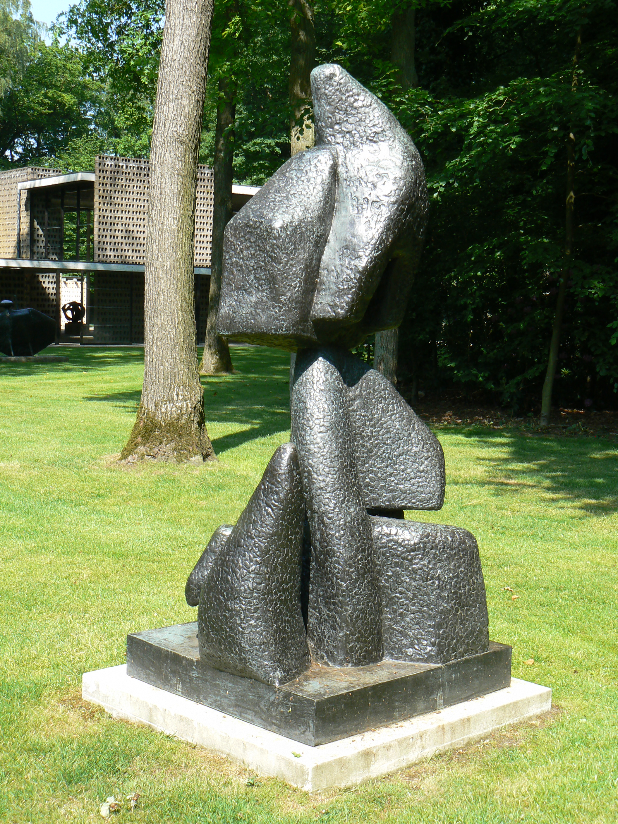 sculpture Composition (1933/1961) by Otto Freundlich in KMM sculpturepark/The Netherlands